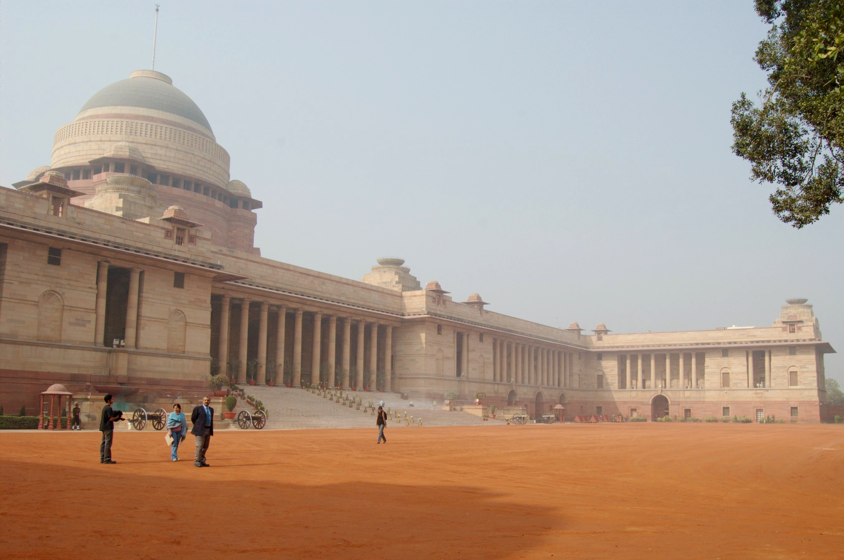 cameras were forbidden inside Rashtrapati Bhavan, so this next sequence was taken after our 2+ hour guided tour of the interior, and of the beautiful Mughal-style formal gardens in back. Originally built to be the British Viceroy's House, completed in 1929; now the active residence of the President of India.